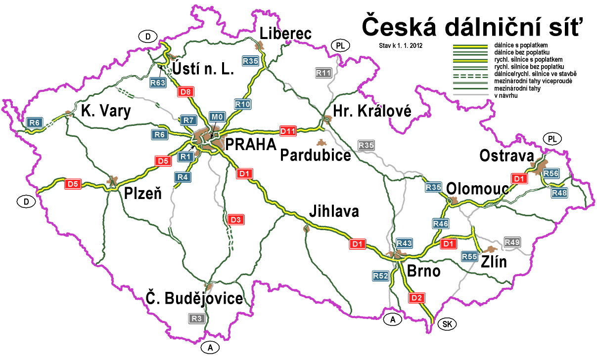 Czech highways (dálnice), dual carriageways (rychl. silnice) and international roads (mezinárodní tahy)